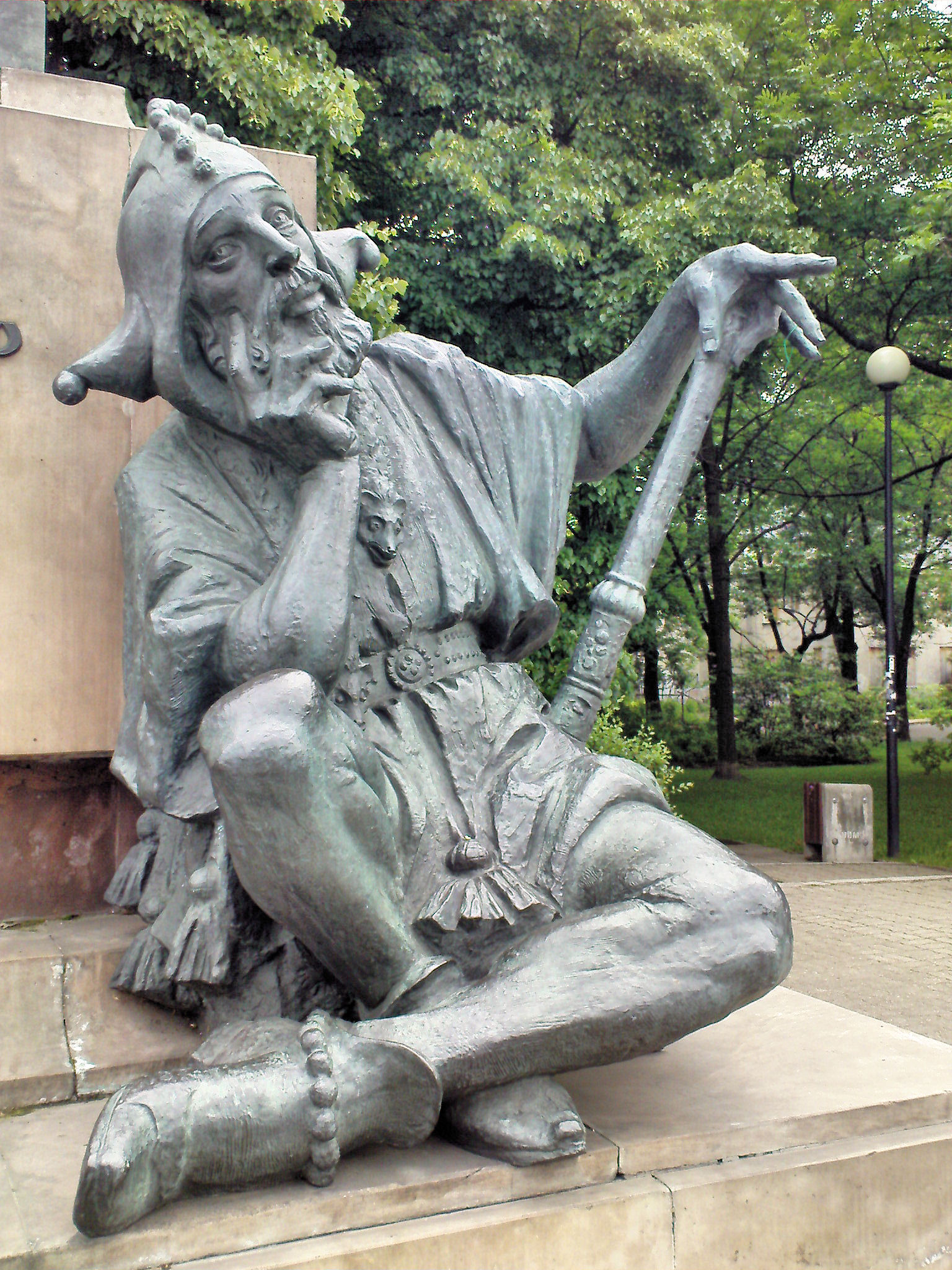 Jan Matejko Monument in Warsaw - Puławska Street